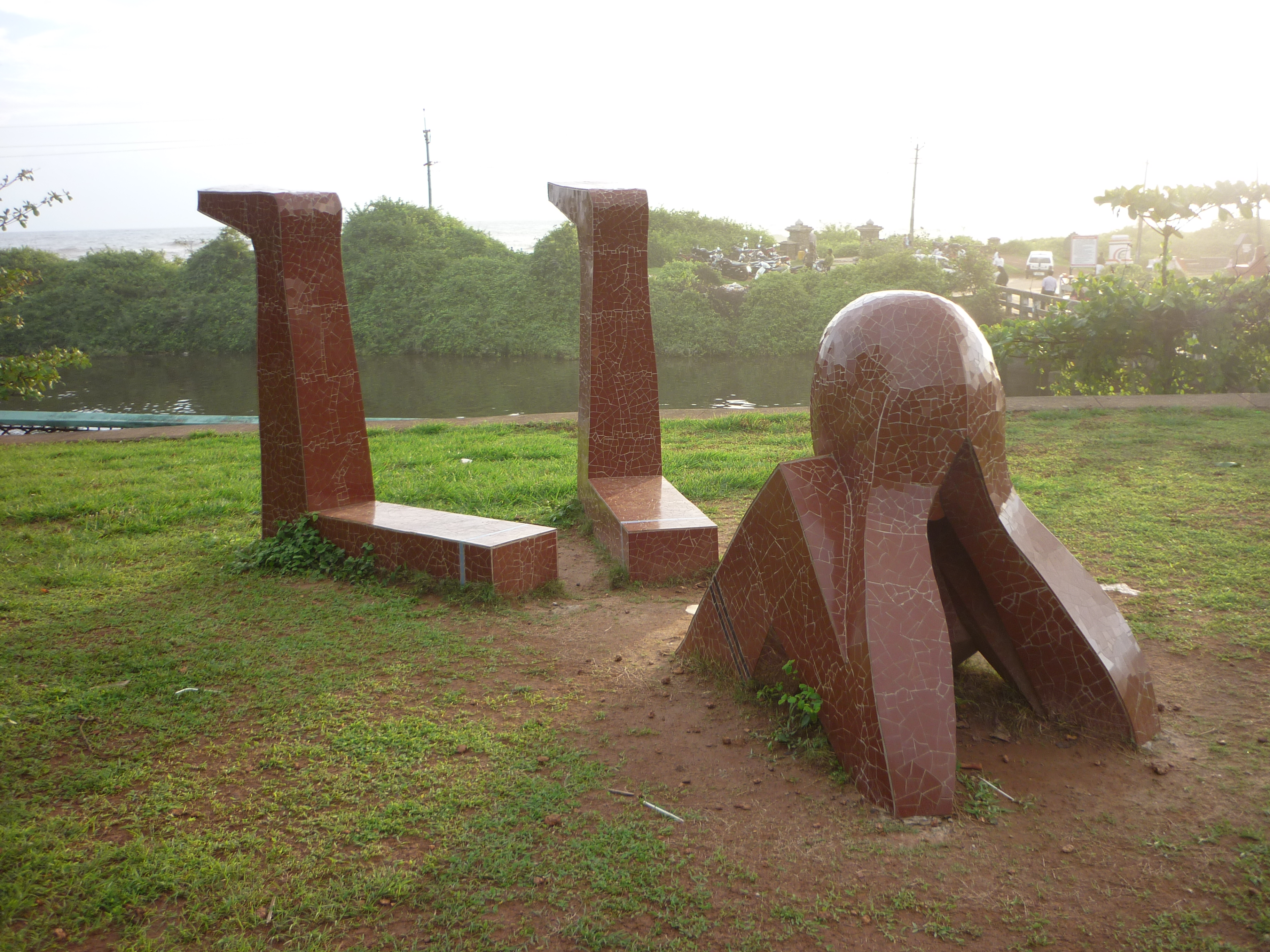 A statue in Payyambalam beach